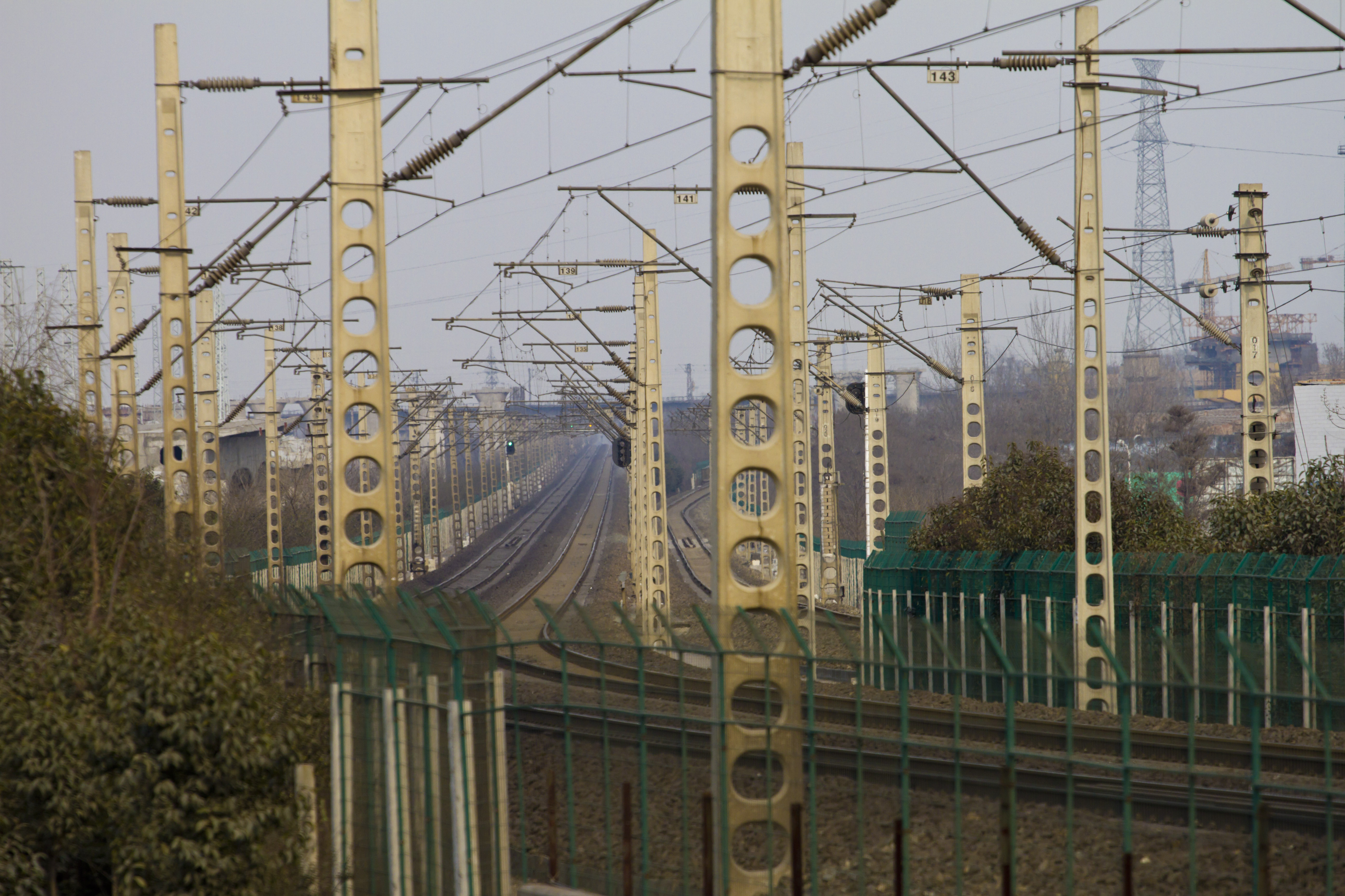 Longhai(left two) and Xikang(right) Railways, at Baqiao, Xian